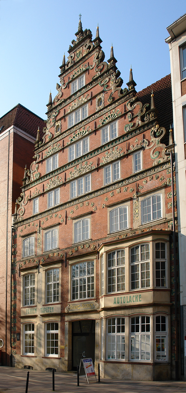 Kontorhaus Suding and Soeken is a rare preserved building in Bremen still occupied by a paint company